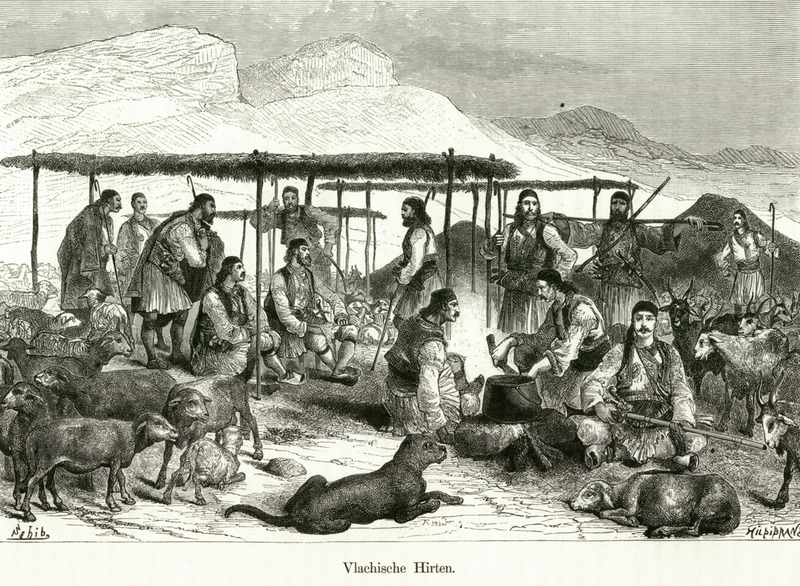 Amand Schweiger von Lerchenfeld. Griechenland in Wort und Bild, Eine Schilderung des hellenischen Konigreiches, Leipzig, Heinrich Schmidt & Carl Günther, 1887